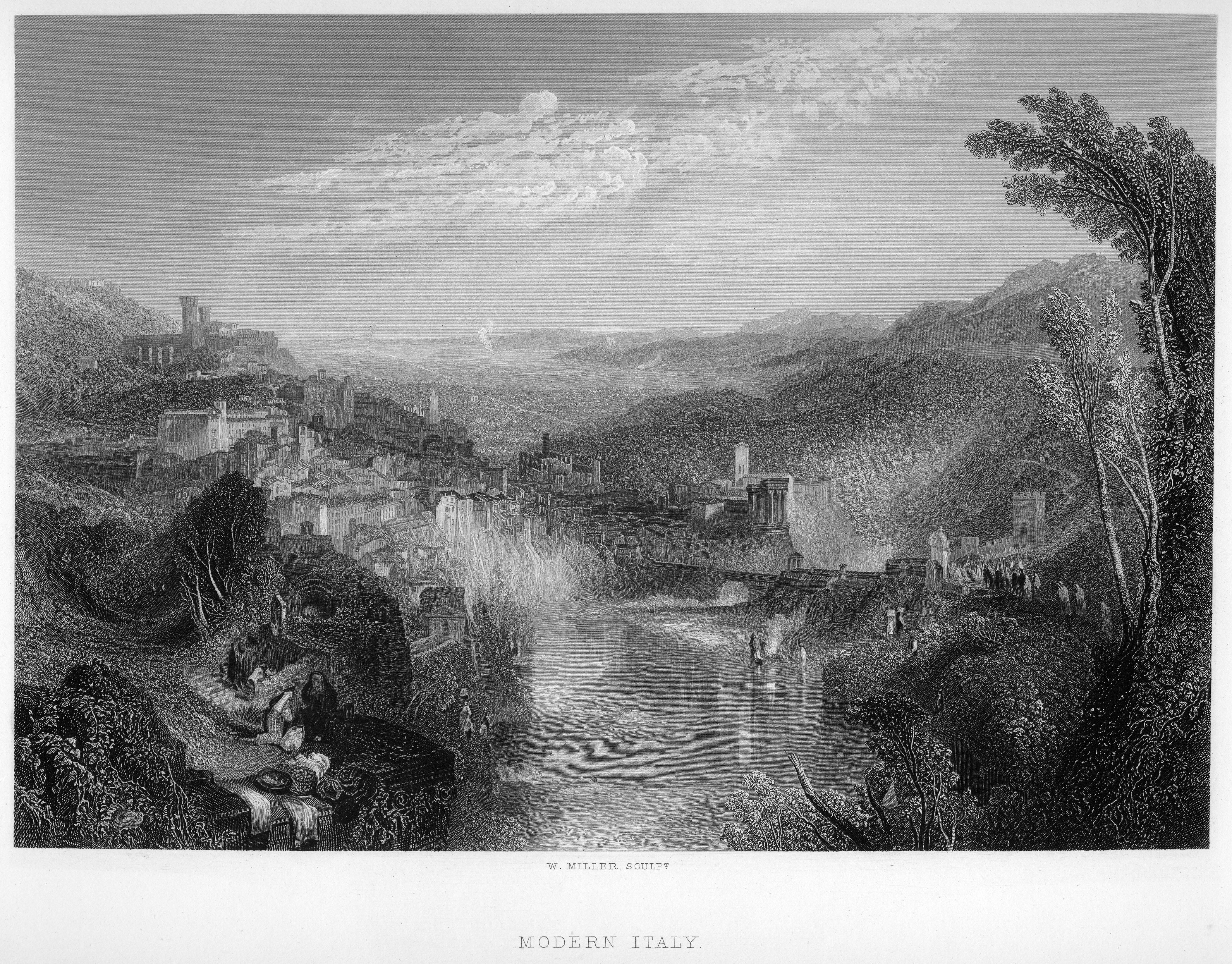 Modern Italy (Rawlinson 736) india proof engraving by William Miller after J M W Turner, published in The Turner Gallery. A series of engravings from the principal works of Joseph Mallord William Turner with a memoir and illustrated text. Wornum, Ralph Nicholson. Chatto and Windus, London. 1875